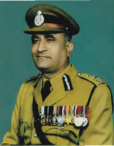 Sultan Singh Rathore was a former Police Chief, Rajasthan Police. He served in that position from 07-11-1968 to 16-02-1974